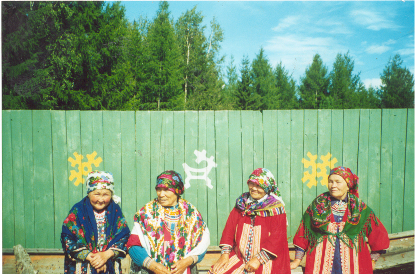 Khanty old women in Numsang Yoh nomad camp, Khanty-Mansia, Russia